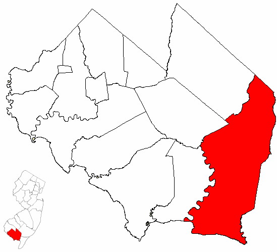 Map of Cumberland County highlighting Maurice River Township